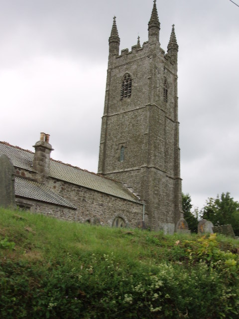 Church of St Clement at Withiel. On the Saints Way which crosses Cornwall from Fowey to Padstow